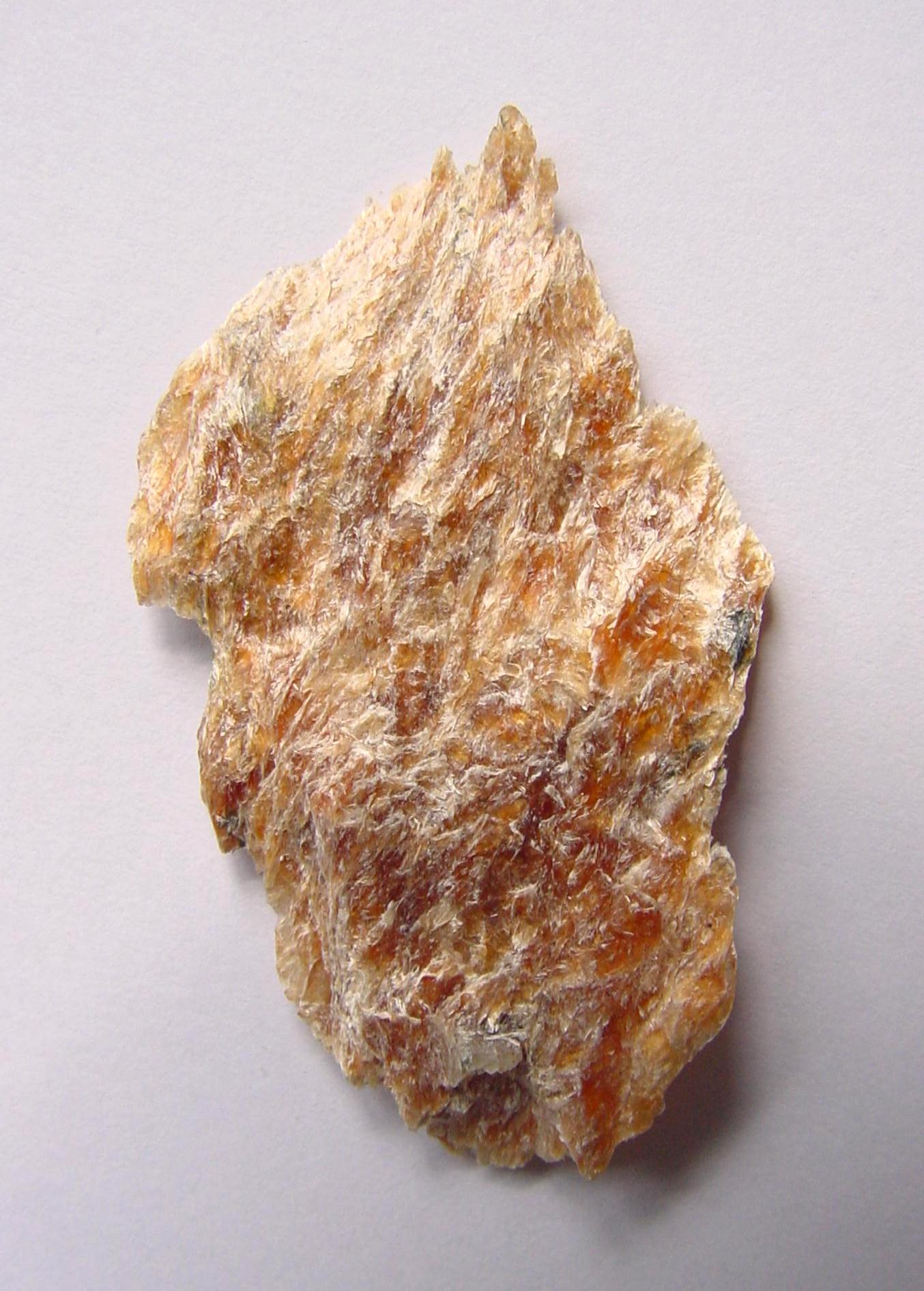 Yuksporite from the type locality, Mount Yukspor, Khibiny, Kola, Russian Federation. Specimen size 4 cm